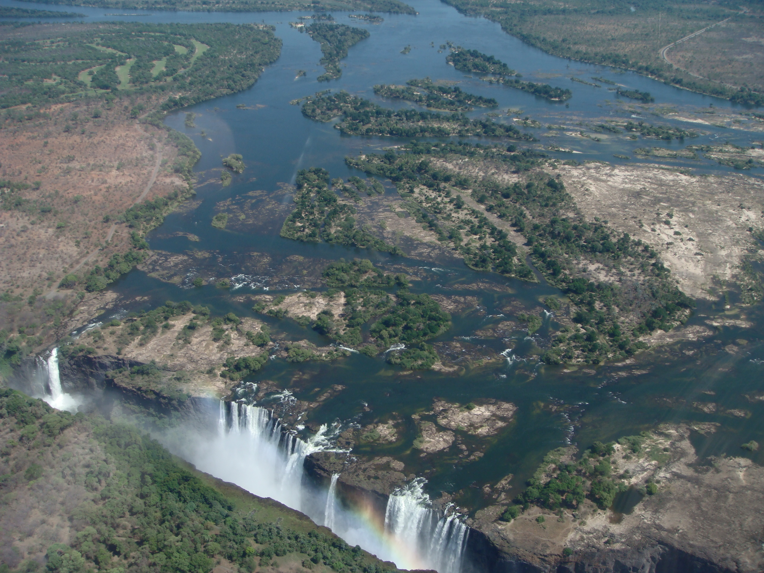 The Victoria Falls or Mosi-oa-Tunya (the Smoke that Thunders) is a waterfall situated in southern Africa between the countries of Zambia and Zimbabwe. The falls are, by some measures, the largest waterfall in the world, as well as being among the most unusual in form, and having arguably the most diverse and easily-seen wildlife of any major waterfall site. Although Victoria Falls constitute neither the highest nor the widest waterfall in the world, the claim it is the largest is based on a width of 1.7 km (1 mile) and height of 108 m (360 ft), forming the largest sheet of falling water in the world. The falls' maximum flow rate compares well with that of other major waterfalls . The unusual form of Victoria Falls enables virtually the whole width of the falls to be viewed face-on, at the same level as the top, from as close as 60 m (200 ft), because the whole Zambezi River drops into a deep, narrow slotlike chasm, connected to a long series of gorges. Few other waterfalls allow such a close approach on foot. Many of Africa's animals and birds can be seen in the immediate vicinity of Victoria Falls, and the continent's range of river fish is also well represented in the Zambezi, enabling wildlife viewing and sport fishing to be combined with sightseeing. Victoria Falls are one of Africa's major tourist attractions, and are a UNESCO World Heritage Site (see box below). The falls are shared between Zambia and Zimbabwe, and each country has a national park to protect them and a town serving as a tourism centre: Mosi-oa-Tunya National Park and Livingstone in Zambia, and Victoria Falls National Park and the town of Victoria Falls in Zimbabwe.